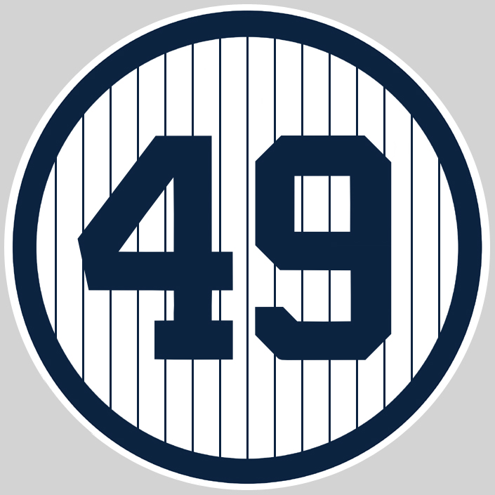 Image represents the current version of Ron Guidry's No. 49 seen in Monument Park in Yankee Stadium